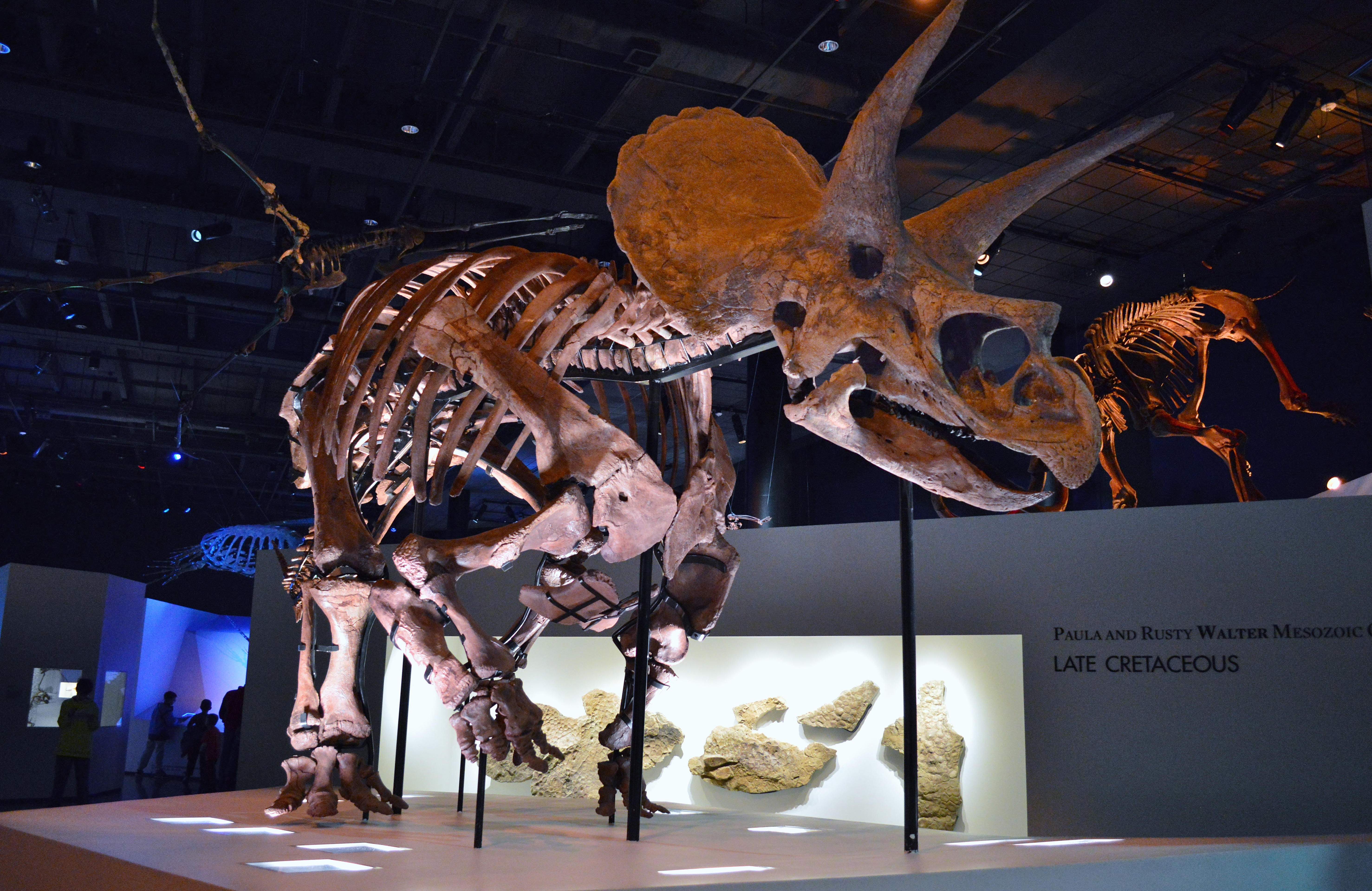 Triceratops Specimen (nicknamed "Lane") at the Houston Museum of Natural Science.